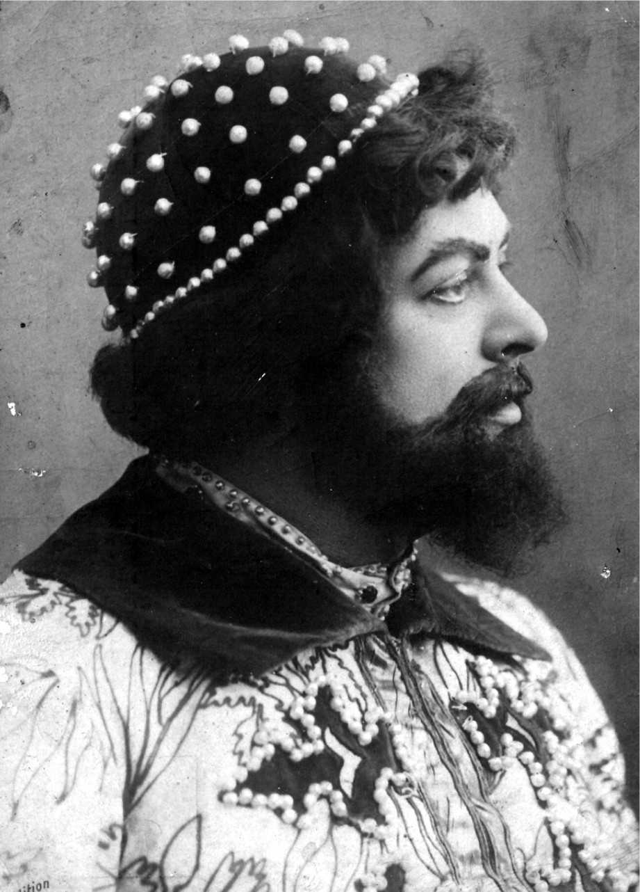 Photo of russian opera singer Ioakim Tartakov (1860-1923)